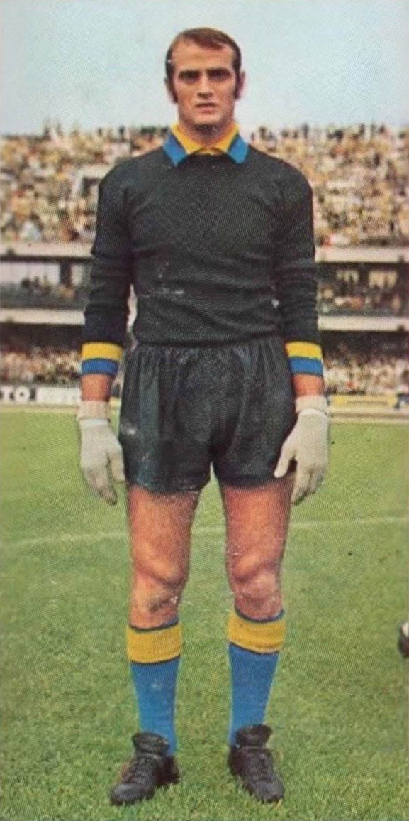 Italian goalkeeper Pier Luigi Pizzaballa with A.C. Hellas Verona in the 1st half of the 1970–71 season, posing inside the Marcantonio Bentegodi Stadium in Verona.